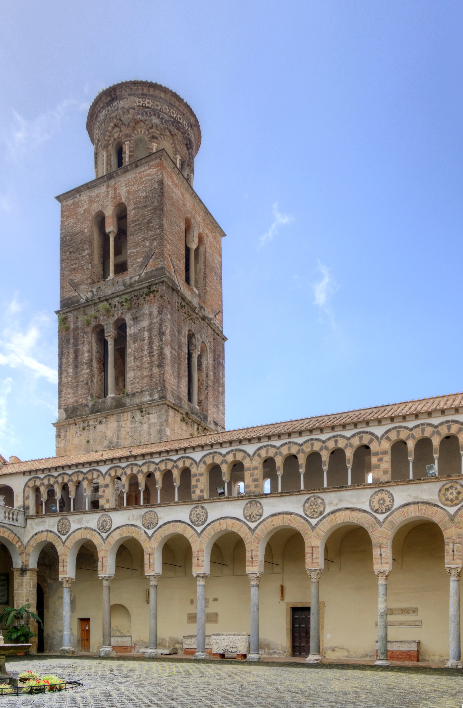 Salerno, San Matteo, Cloister